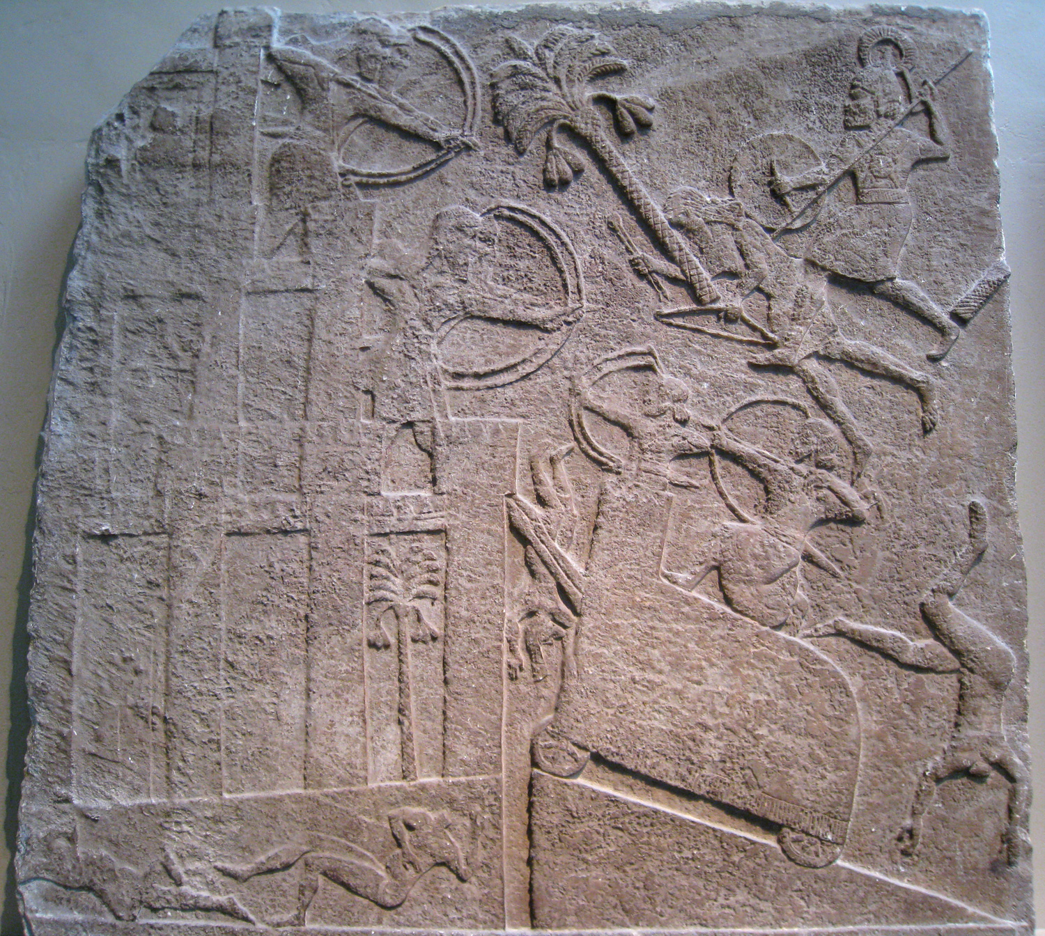 Assyrian troops attacking a besieged city, most likely in Mesopotamia, using a battering ram on a siege ramp. Enemy archers are returning fire. Headless corpses lie at the foot of the city walls. From the Central Palace in Nimrud and now in the British Museum, London. Circa 728 BC.